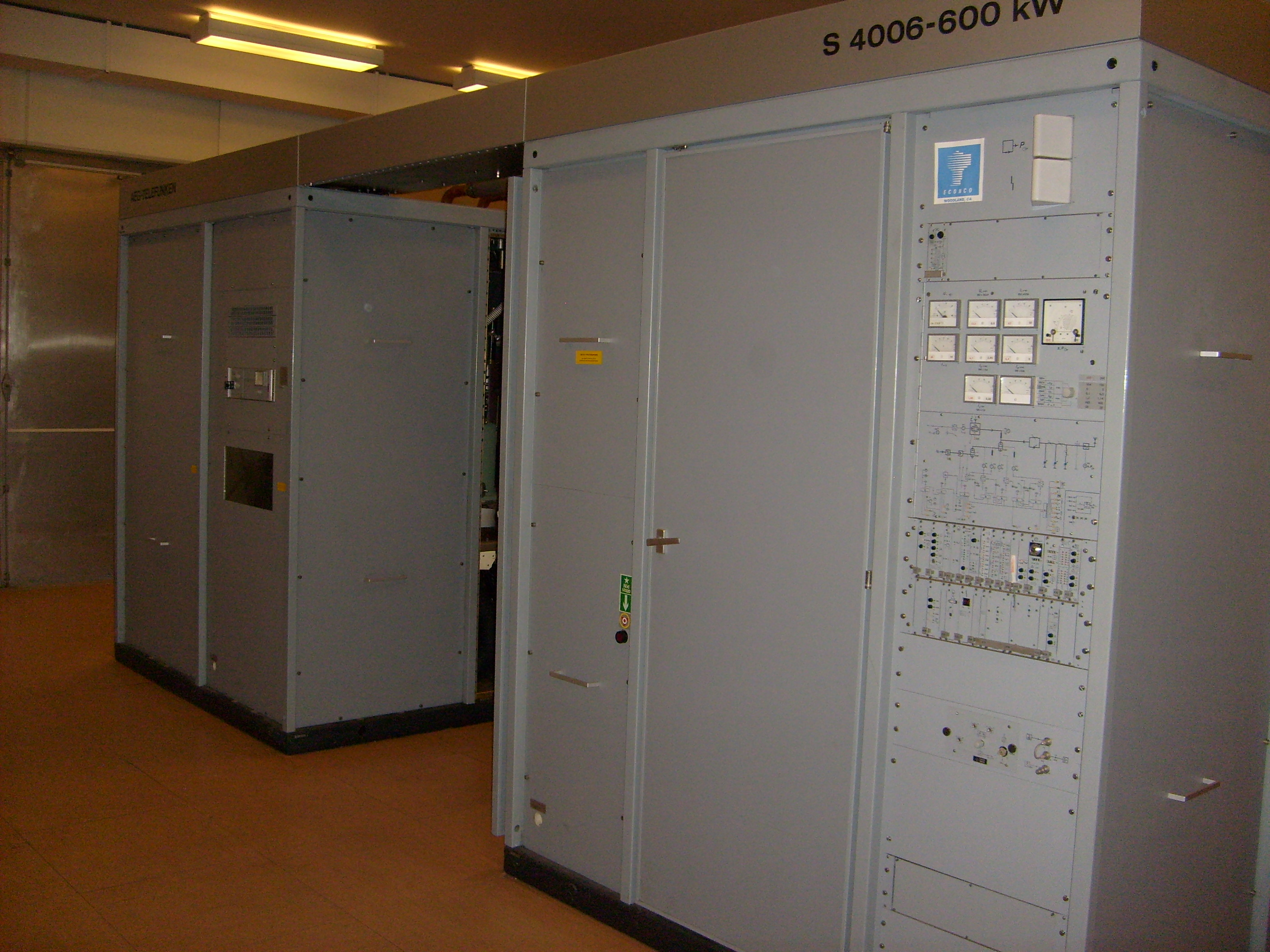 The mediumwave transmitter type Telefunken S 4006 at Soelvesborg mediumwave station outside Soelvesborg, Sweden